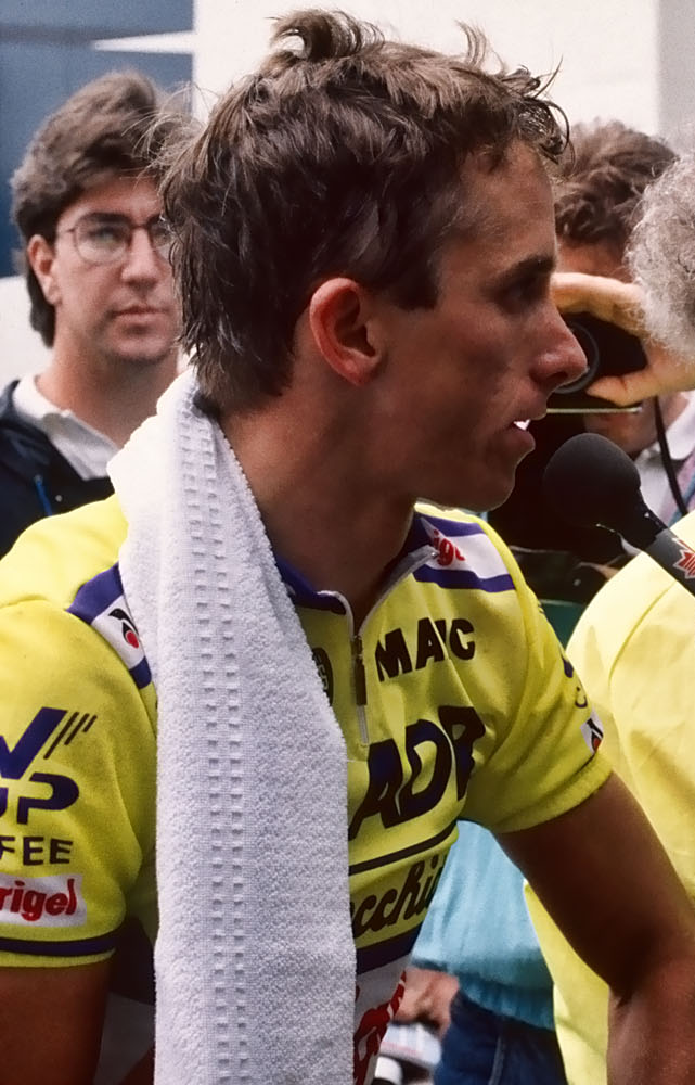 Greg faces the instant interviews at the finish of the 1989 Tour de France stage in Luxembourg. Greg memorably took victory on the final stage time trial in Paris by a winning margin of 8 seconds from Laurent Fignon.